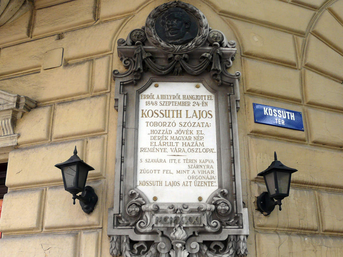 Cegléd (Hungary)